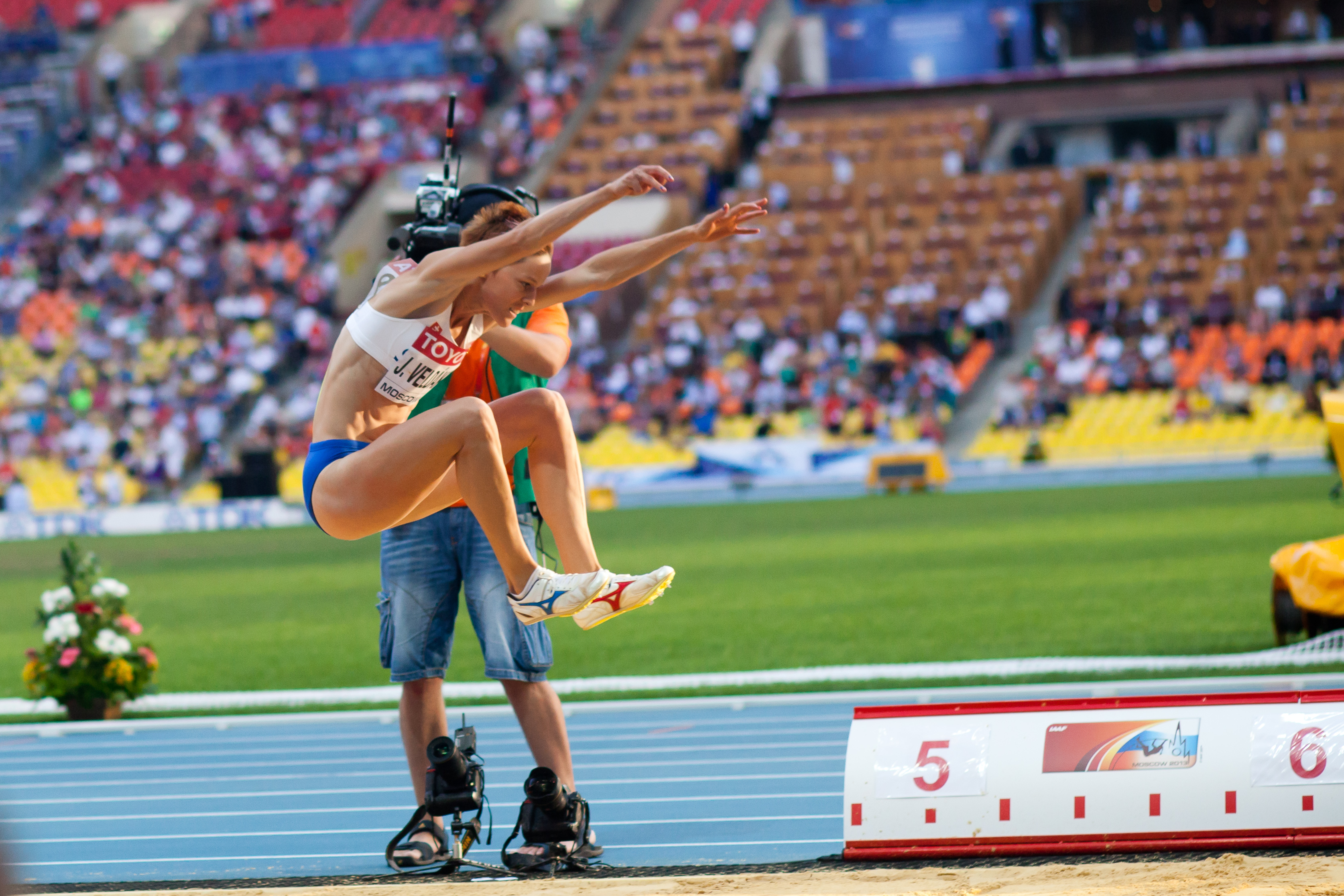 Jana Velďáková during 2013 World Championships in Athletics in Moscow.